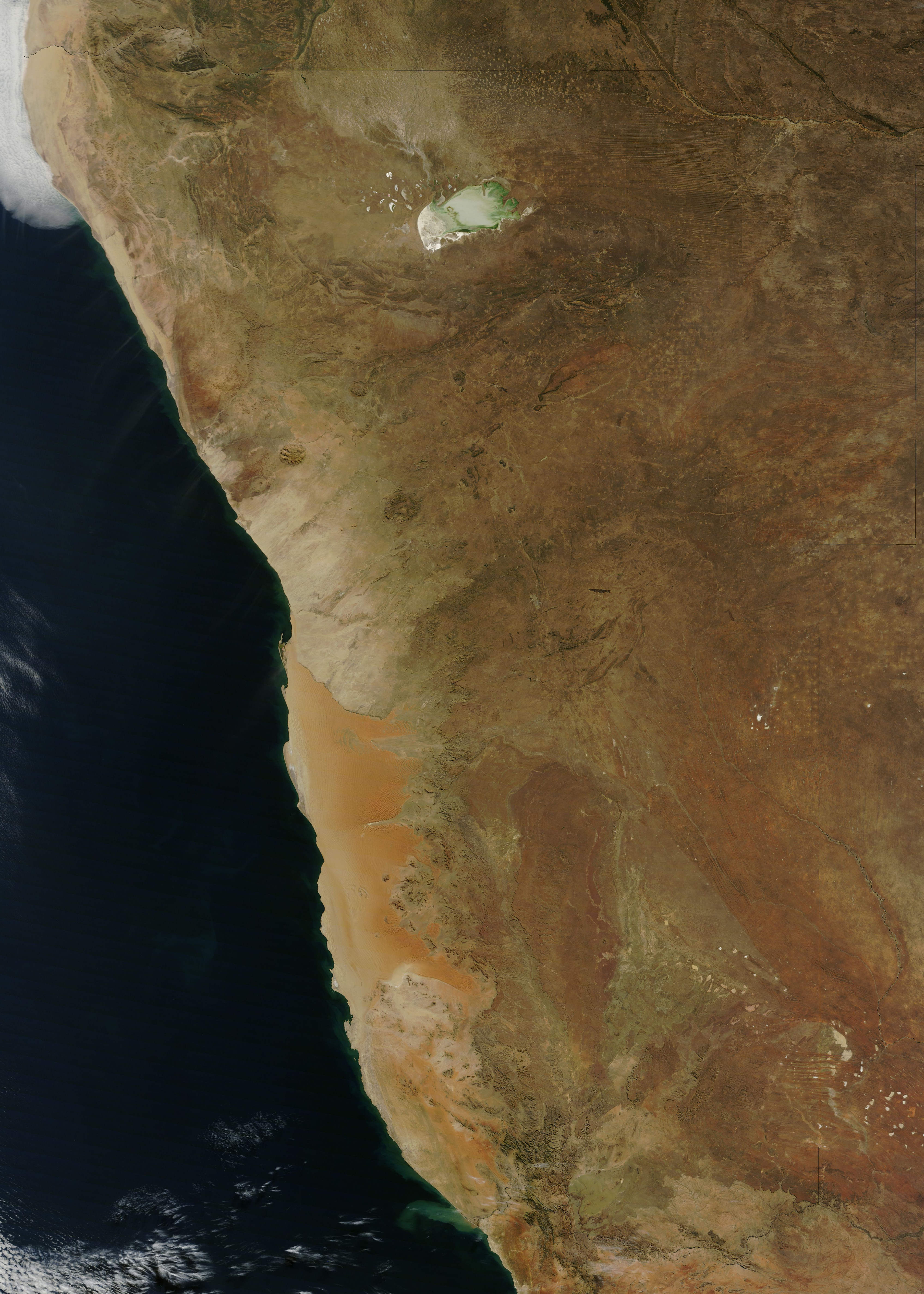 Natural-colour image of the Namibian coast. With the exception of a cloud bank hugging the coast near the Kunene (or Cunene) River, skies are cloud-free.Namibia’s deserts are by no means uniform. The Kuiseb River, flowing toward the Atlantic Ocean about midway down the coast, marks a dramatic difference in landscape. Rocky plains lie north of the river; to the south lies a sea of sand dunes, which appear orange-brown in this image.